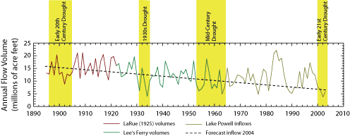 Graph showing annual flow volumes in the Colorado River, 1890–2010